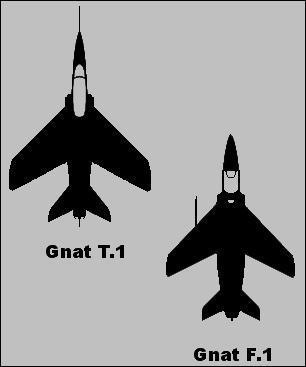 Comparison of Gnat T.1 and Gnat F.1.